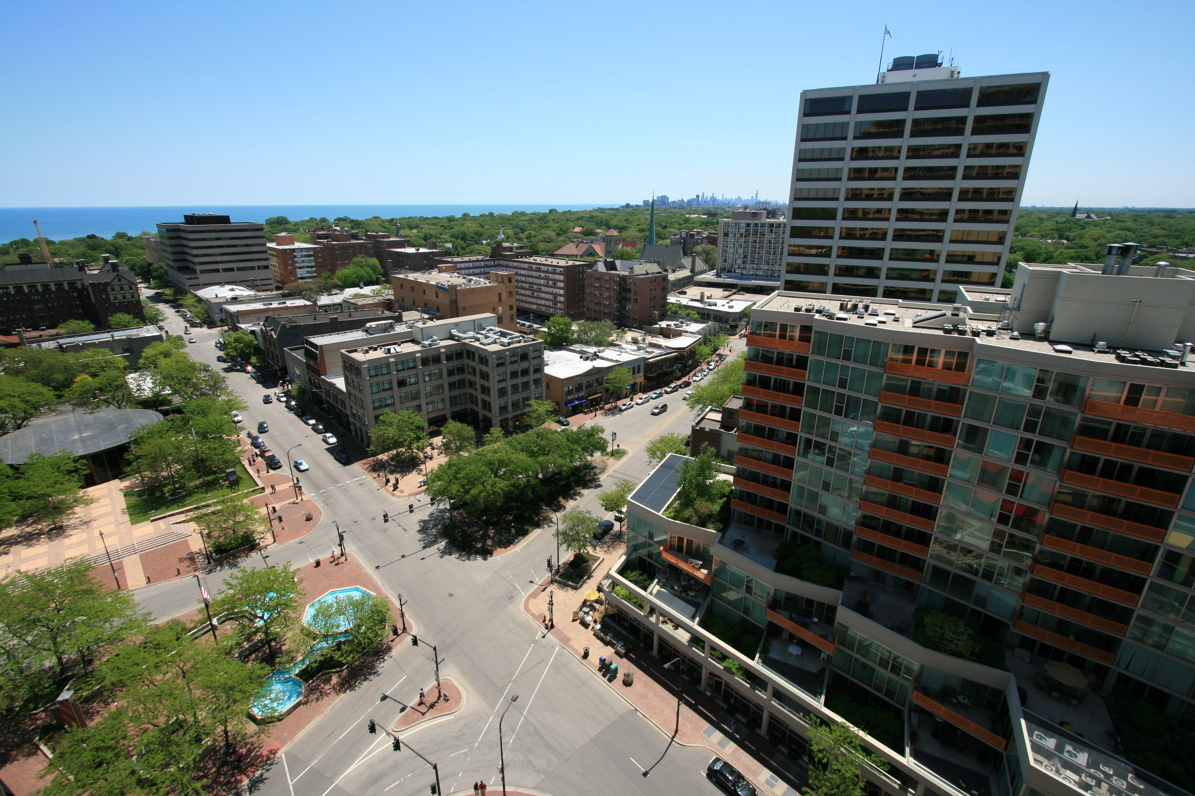 View of Fountain Square in Evanston, Illinois looking south-southeast towards Chicago and Lake Michigan